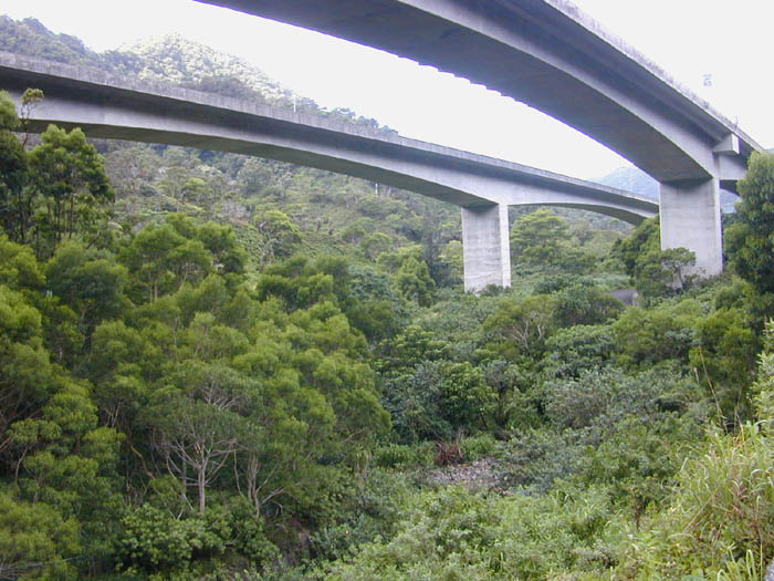 Viaducts for the H-3 Interstate Highway within Halawa Valley on the Island of O‘ahu, Hawai‘i – photographed by Eric Guinther on October 18, 2004.